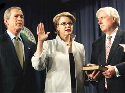 Margaret Spellings takes the oath of office as her husband, Robert Spellings, holds the Bible and President Bush looks on.